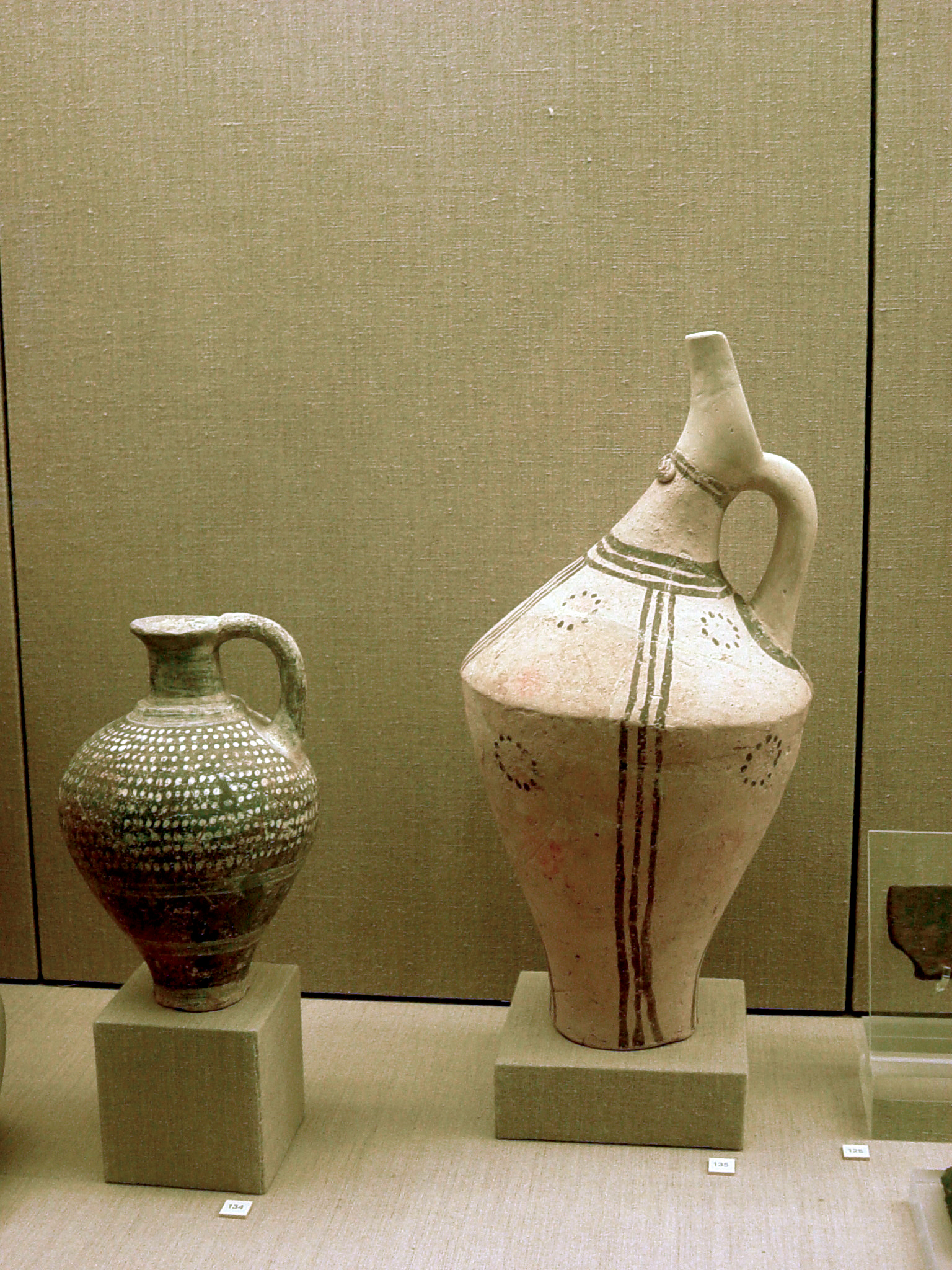 Utilitarian terracotta object, Museum of Cycladic Culture, Akrotiri excavation artifacts, Santorini, Cyclides, Hellas (Greece)